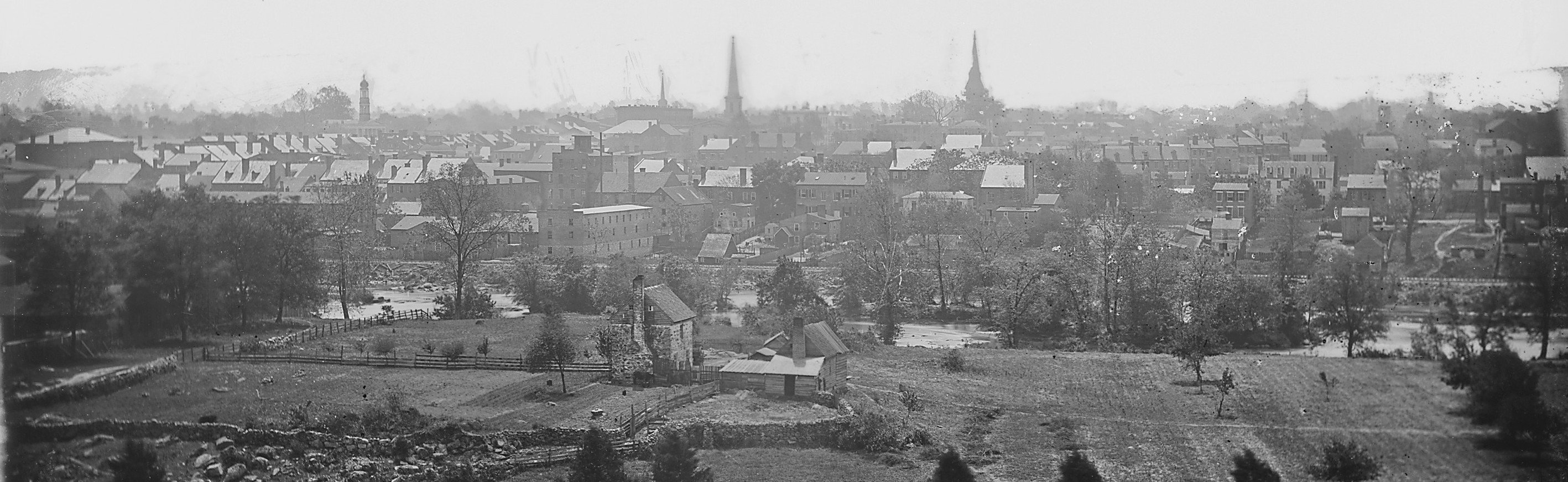 General notes: Possibly Fredericksburg.